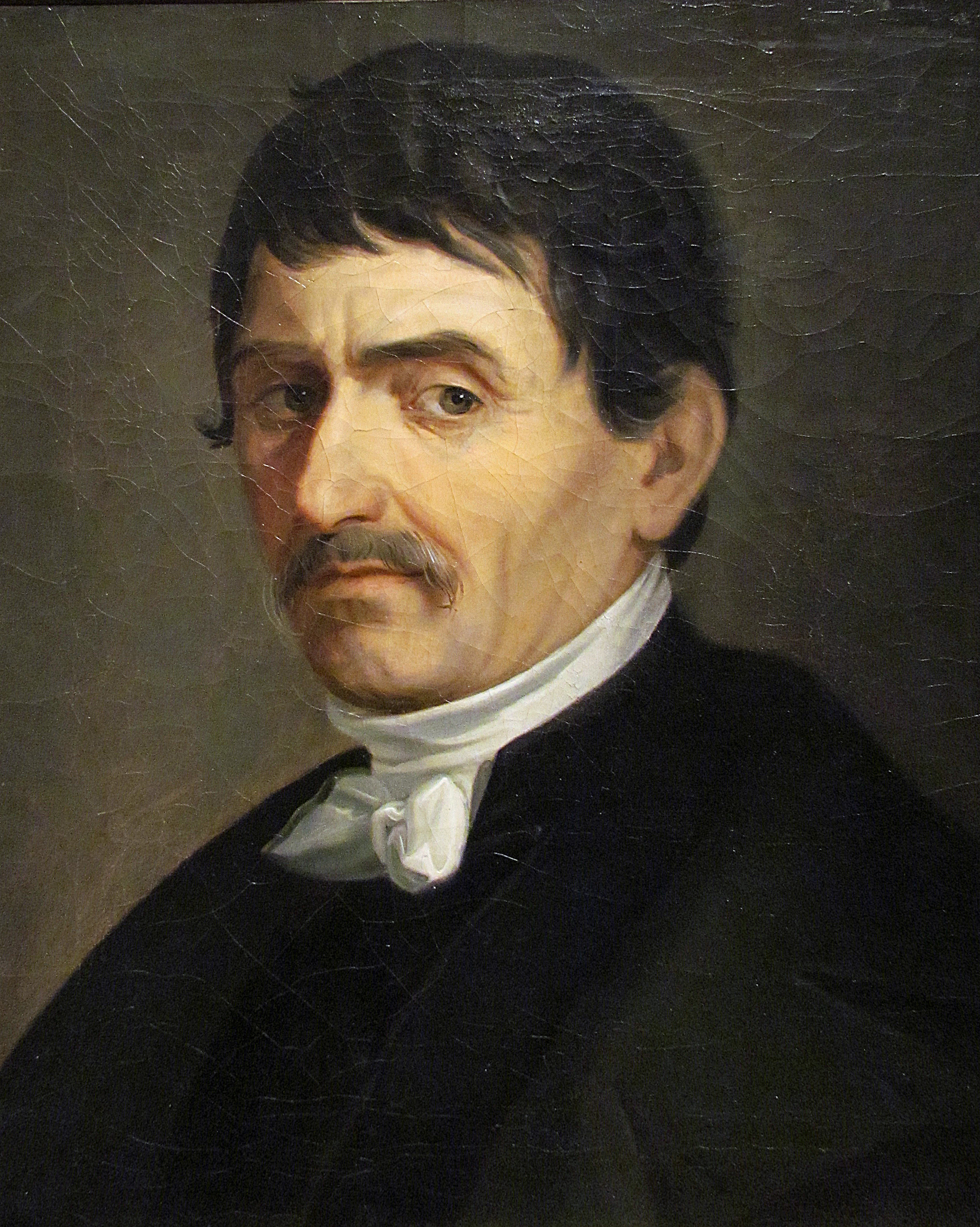 Jovan Kovač Zemunac by Dimitrije Avramović (copy after Konstantin Danil) 1836